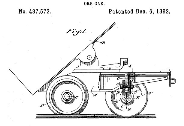 Excerpt from diagram of 487,572 for ORE CAR by F. A. Huntington